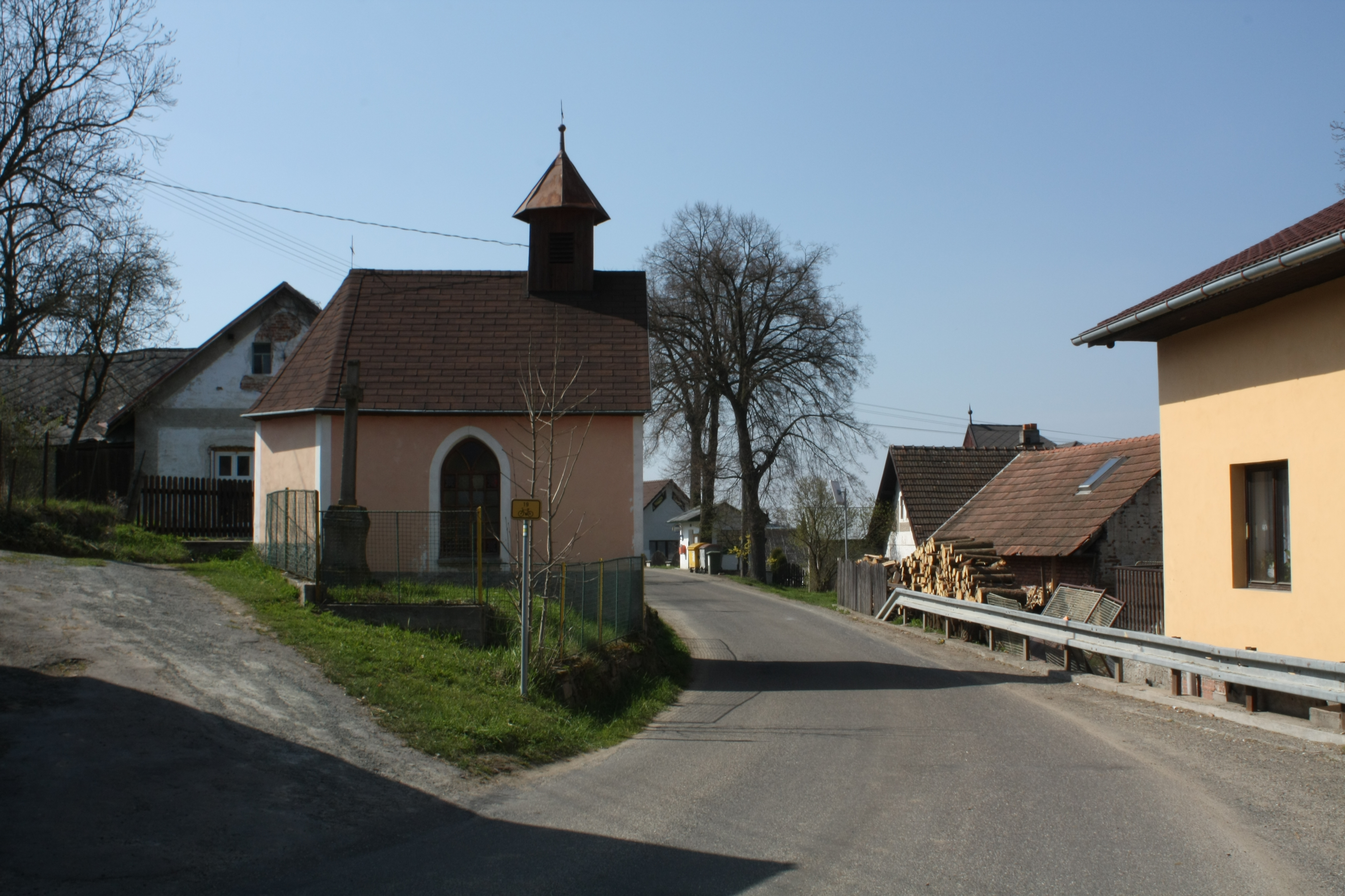 Dobrovítova Lhota, Havlíčkův Brod District, Czech Republic Object location49° 39′ 52.66″ N, 15° 18′ 56.57″ E